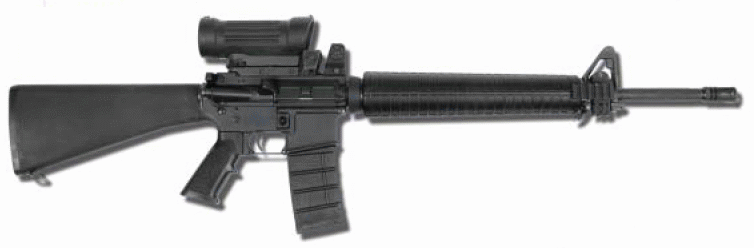 Danish AR (assault rifle) M/04 with optical sightDansk: Gevær M/95 med påmonteret optisk sigte